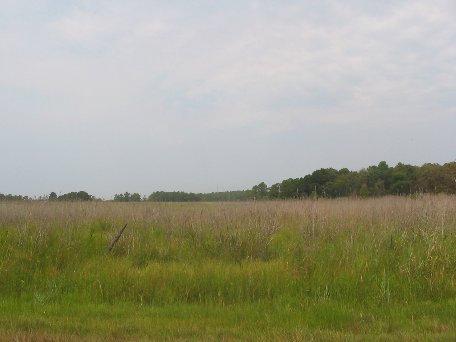 Image taken by me for Wikipedia